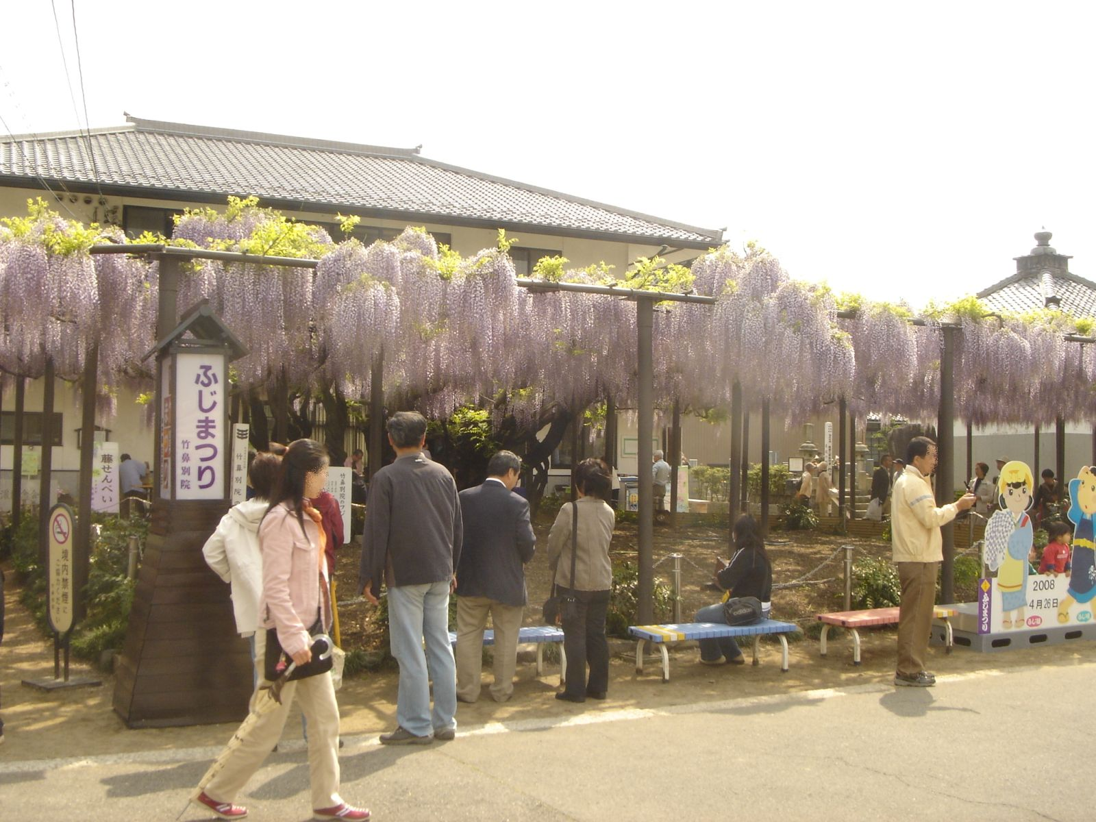 Wisteria floribunda in Takehana Betsuin(Temple)(竹鼻別院の藤),Hashima,Gifu,Japan(岐阜県羽島市)で撮影